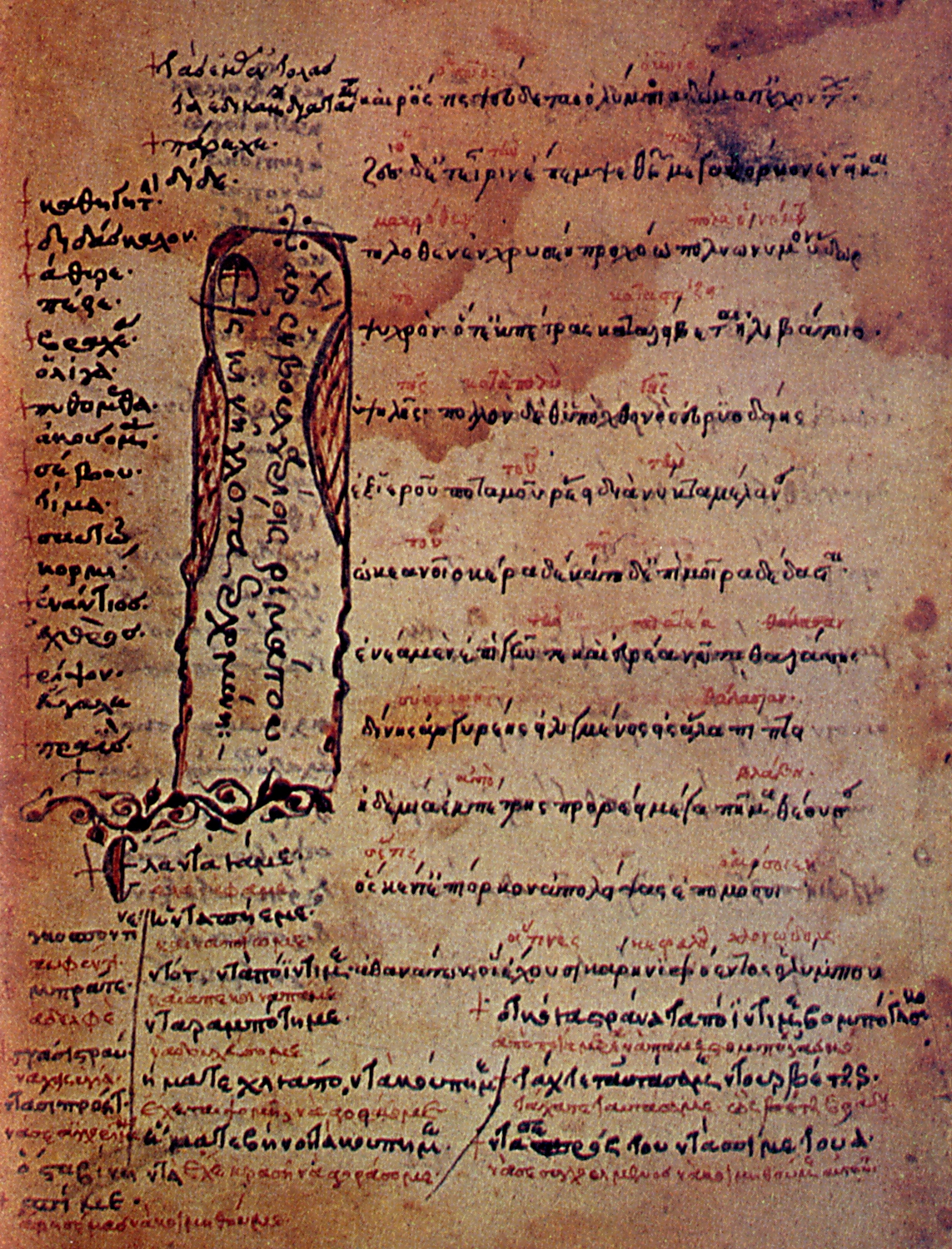 Page from „Ἀρχὴ ἐν βουλγαρίοις ριμάτον εἰς κῑνῆ γλότα ἐρχομένη”, a Bulgarian-Greek dictionary from the 16th century. Vat. Archivio San Pietro C 152, fol. 134v